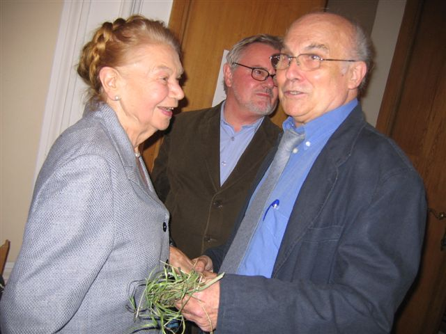 Julia Hartwig (1921-2017), Polish poet and Anders Bodegard, Swedish translator and Ryszard Kapuscinski (1932-2007), Polish writer and journalist